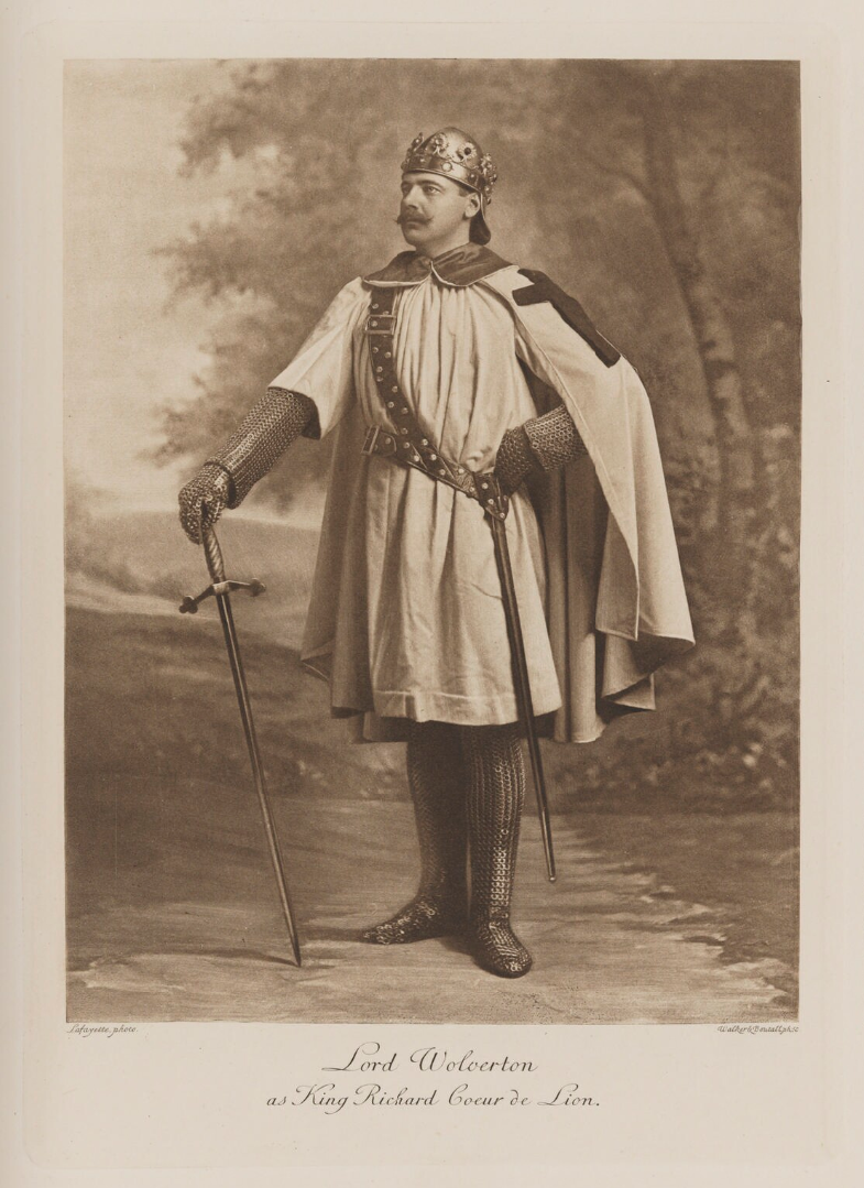 The Lord 4th Wolverton posing as Richard the Lionheart